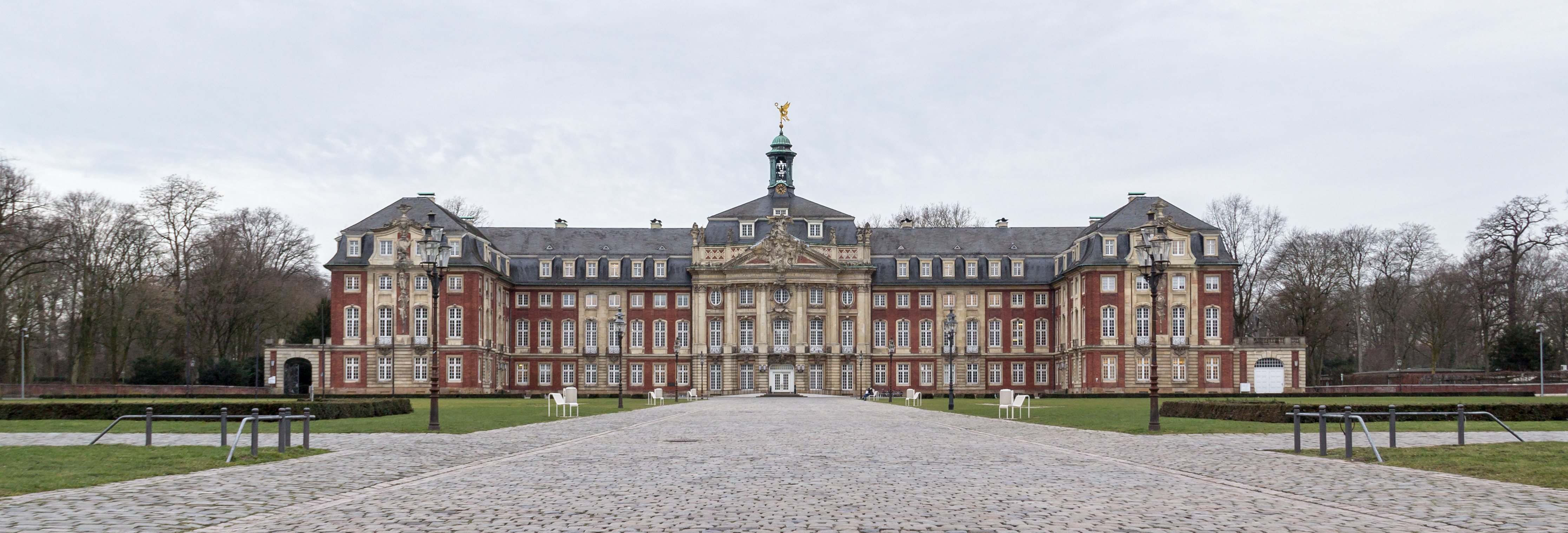 Prince Bishop's Castle Münster, Münster, North Rhine-Westphalia, Germany This image shows a heritage building in Germany, located in the North Rhine-Westphalian city Münster.